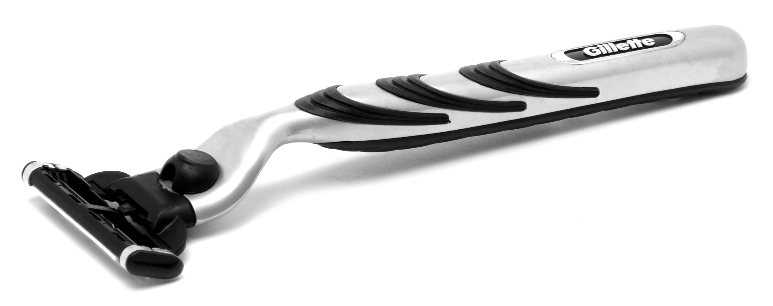 A standard Gillette Mach 3 razor.